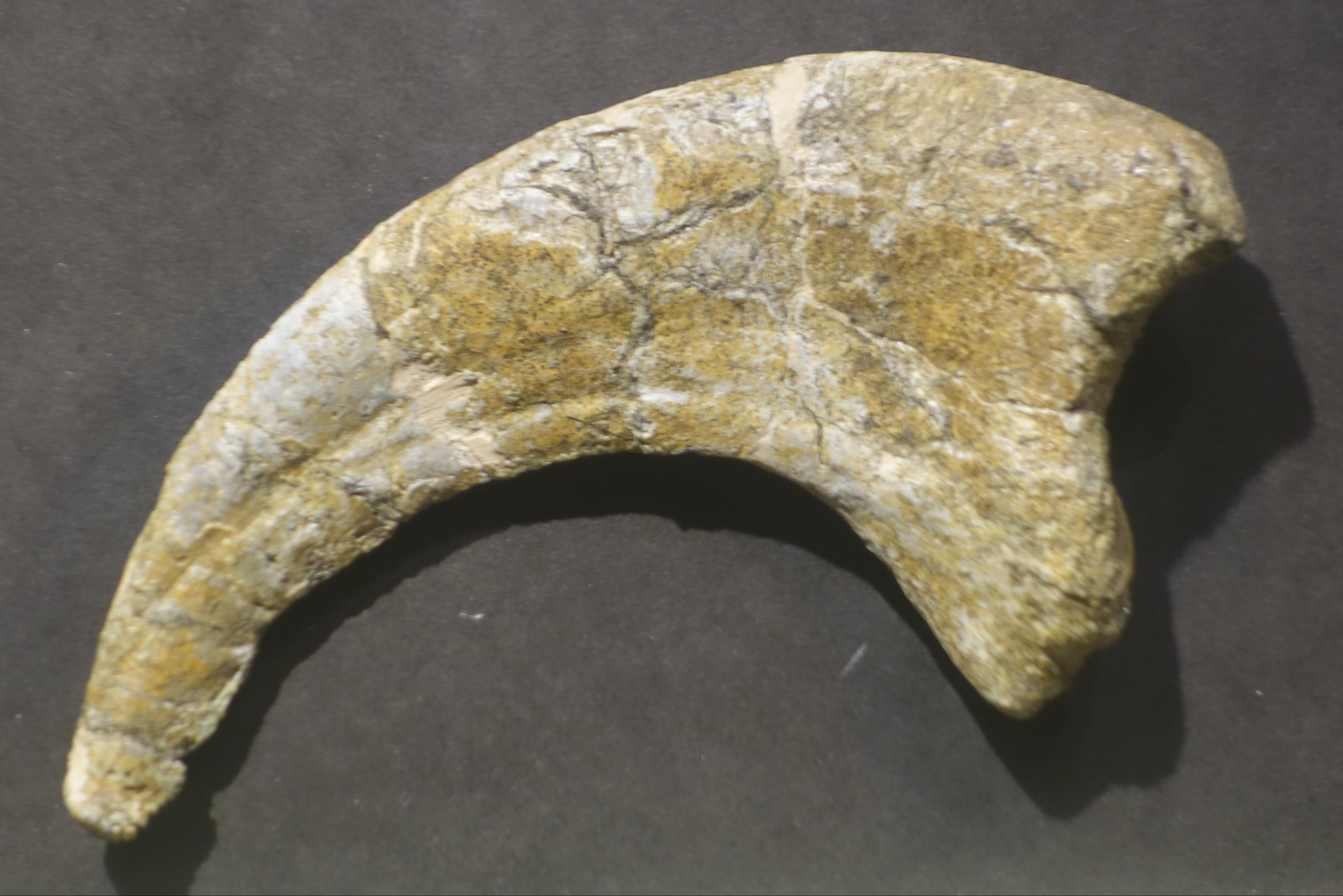 Ungual of Utahraptor, on display at the BYU Museum of Paleontology.